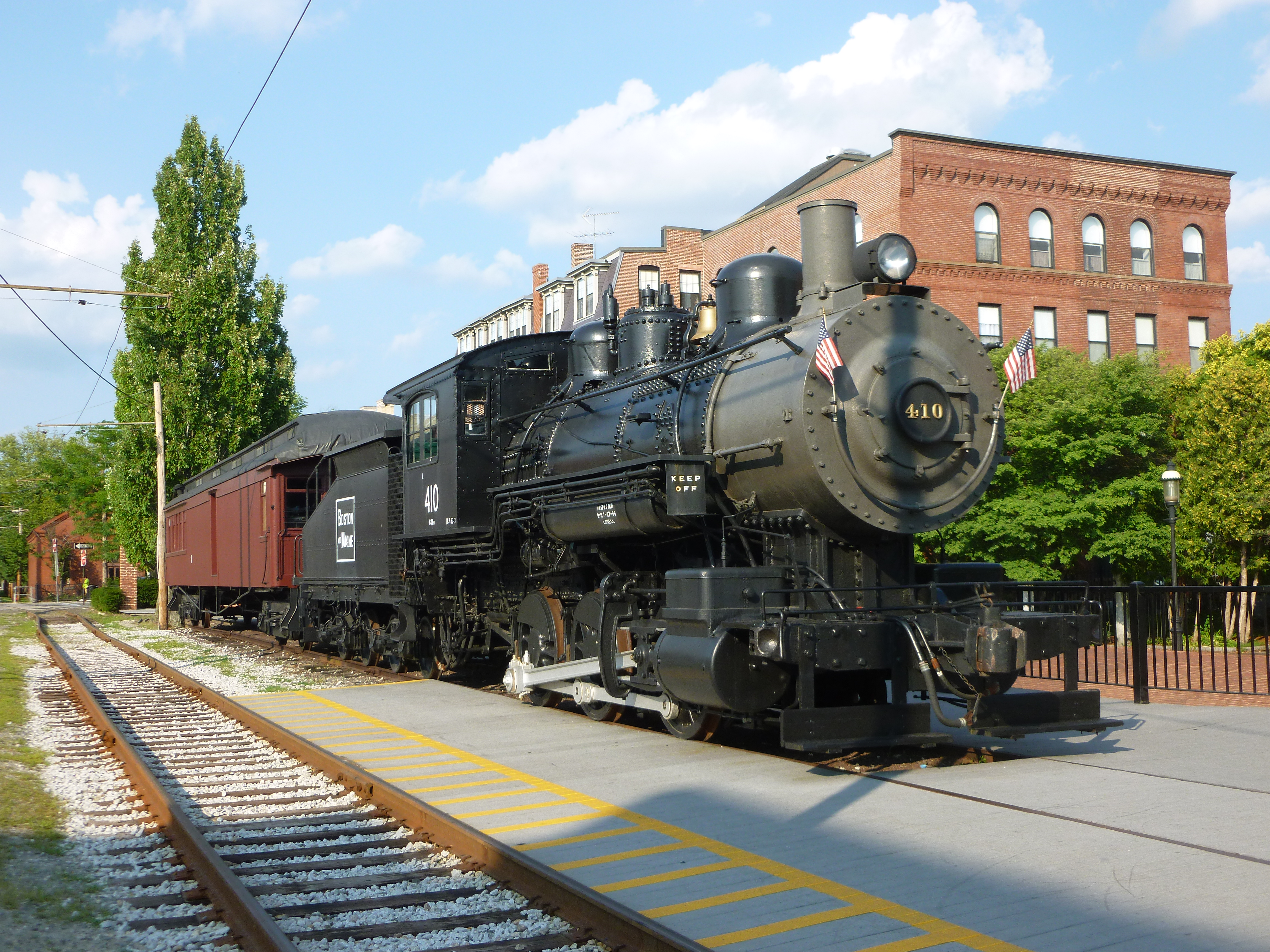 Boston and Maine locomotive No. 410, with a red caboose, viewed from the front-right Located on the east side of Dutton Street near the intersection with Merrimack Street in Lowell, Massachusetts.